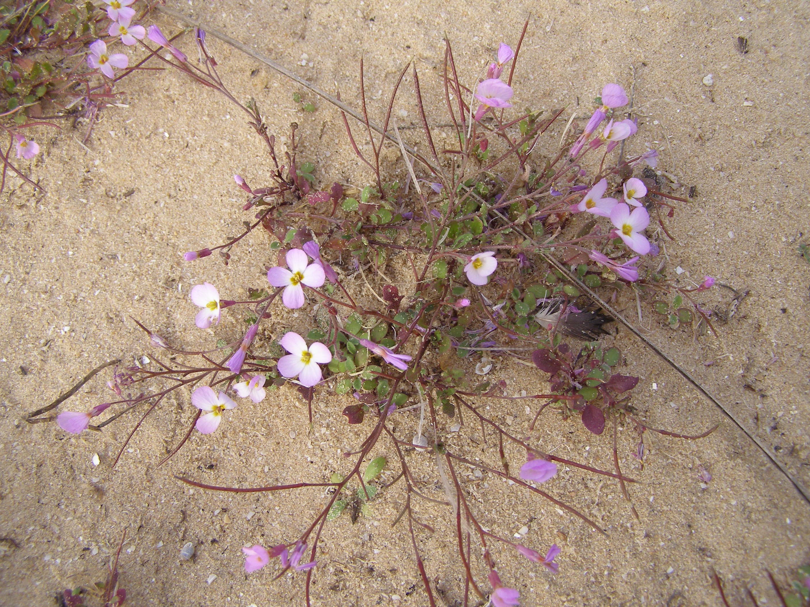 Maresia pulchella